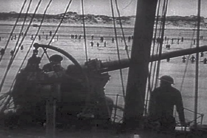 Royal Navy gunner covering the troops retreat at Dunkirk (France, 1940). Screenhot taken from the 1943 United States Army propaganda film Divide and Conquer (Why We Fight #3) directed by Frank Capra and partially based on, news archives, animations, restaged scenes and captured propaganda material from both sides.